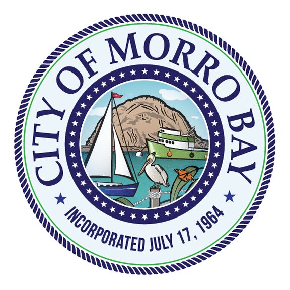 Harbor of Morro Bay